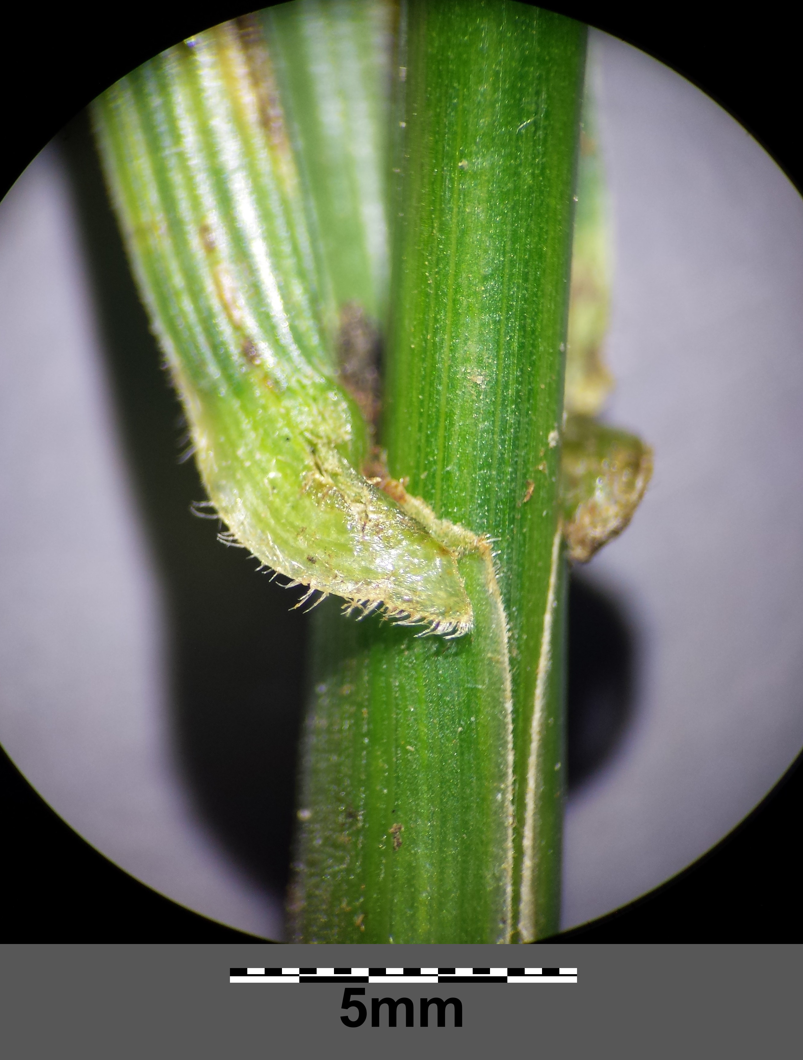 Stem with leaf sheath and ciliate auricles Taxonym: Festuca arundinacea subsp. arundinacea ss Fischer et al. EfÖLS 2008 ISBN 978-3-85474-187-9 Location: Unterrohrbach/In den Teichteln, district Korneuburg, Lower Austria - ca. 200 m a.s.l. Habitat: wet meadows